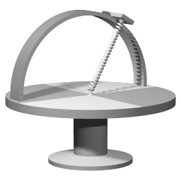 A depiction of a device that was designed by Charles Wheatstone. It is a table-top device that features the same properties as the Foucault pendulum. The helical spring acts as a spring that is free to vibrate in any plane that connects the attachment points of the spring. When the spring is vibrating and the platform is rotating, then the spring precesses, and this precession follows the same sine law as applies in the case of the Foucault pendulum. The article in which Wheatstone describes his device and his observations is available at wikisource: Note relating to Foucault's new mechanical proof of the Rotation of the Earth